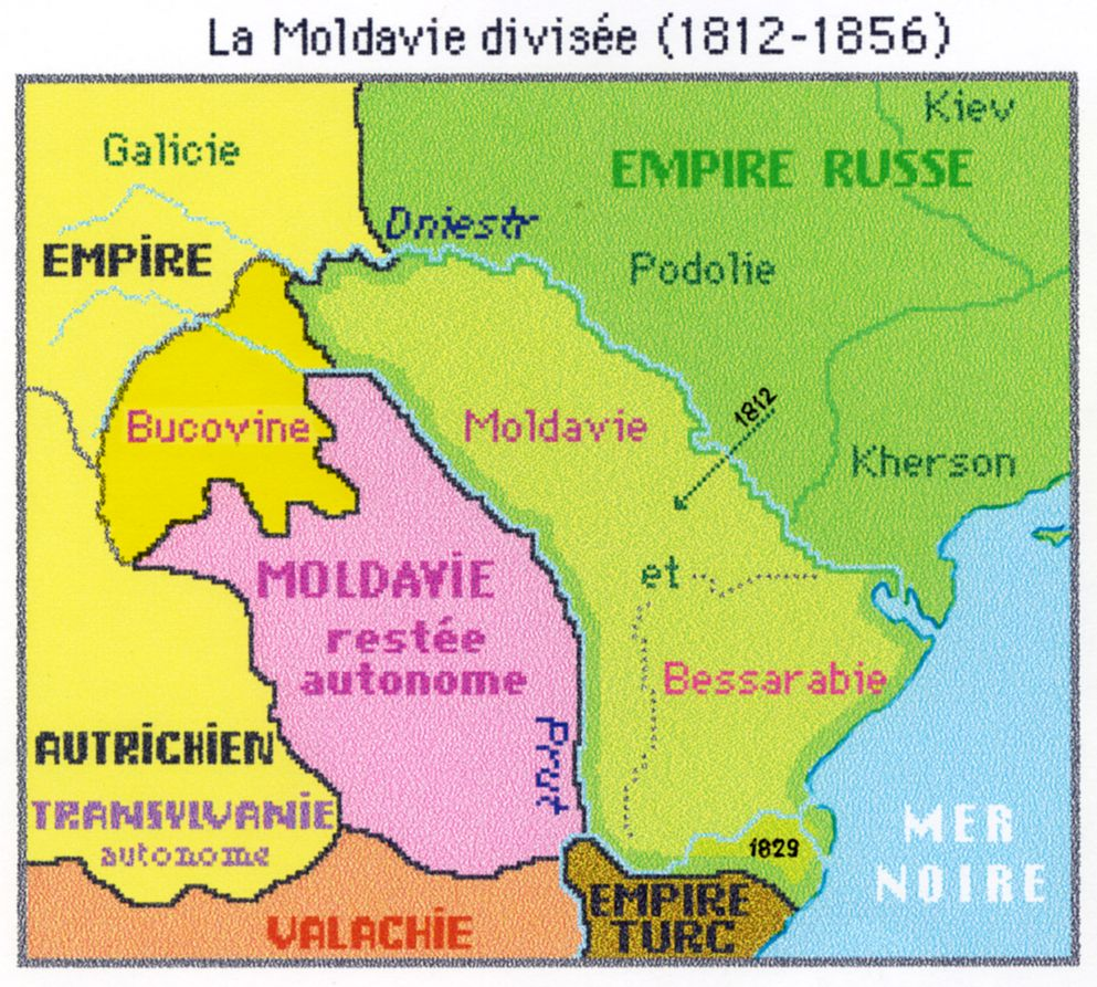 Map of Moldova/Moldavia 1812-1856